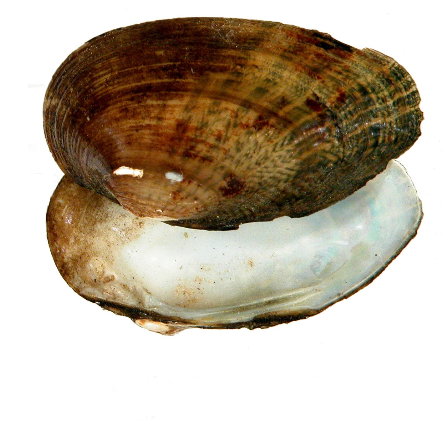 Medionidus penicillatus USFWS photo